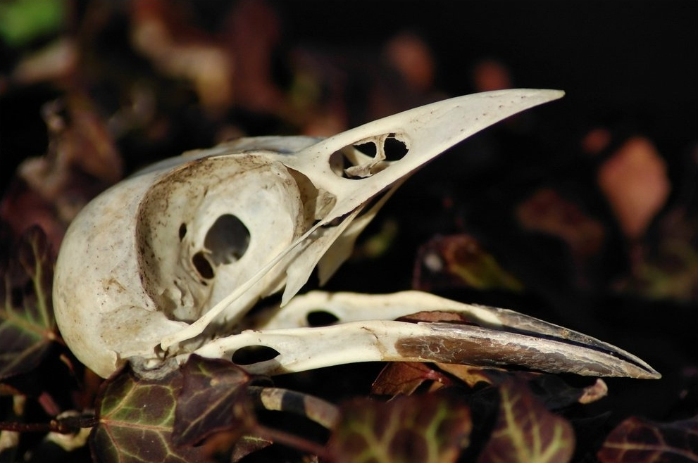 Skull of a European Magpie (Pica pica).